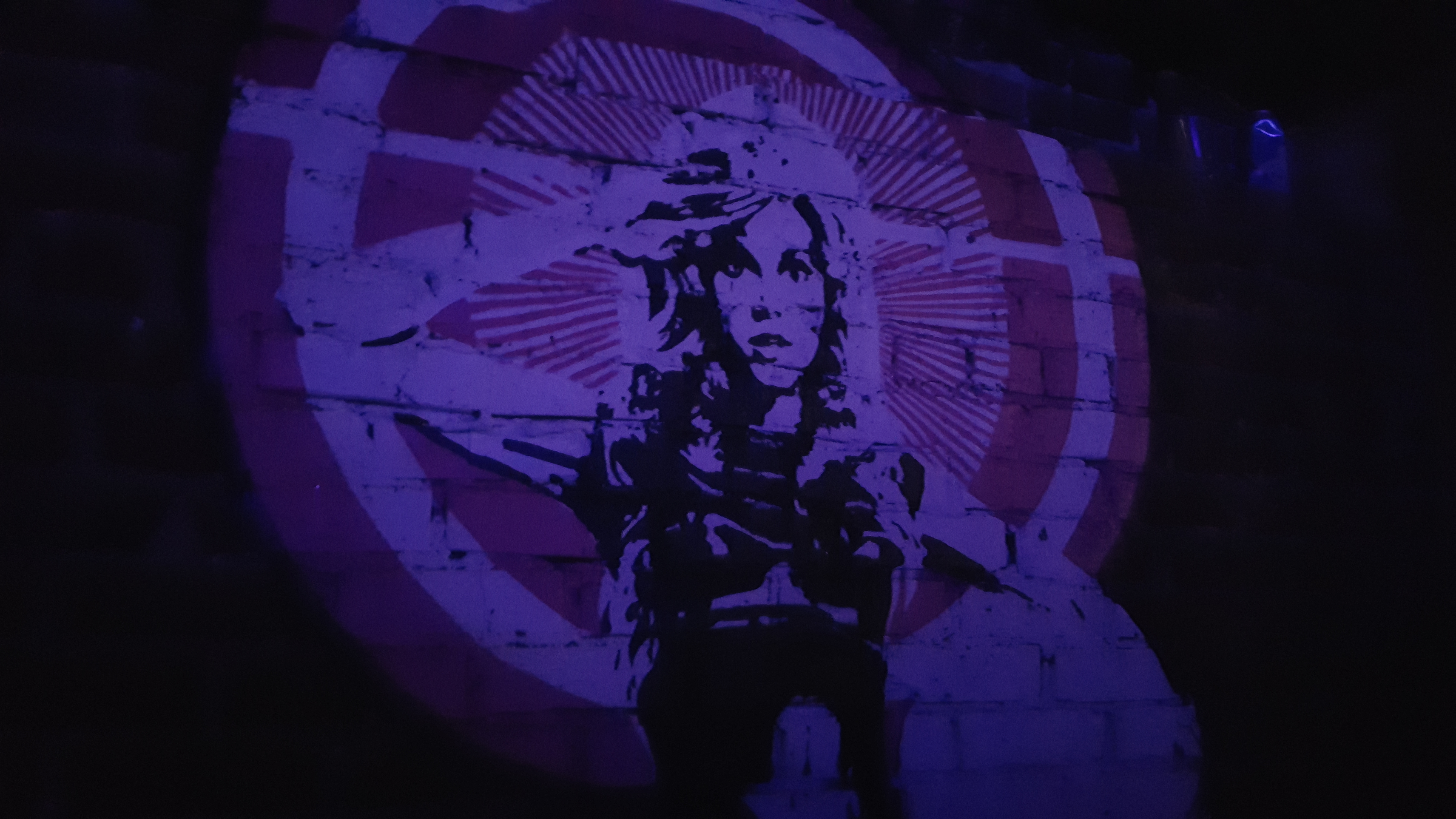 Barbarella, Portland, Oregon